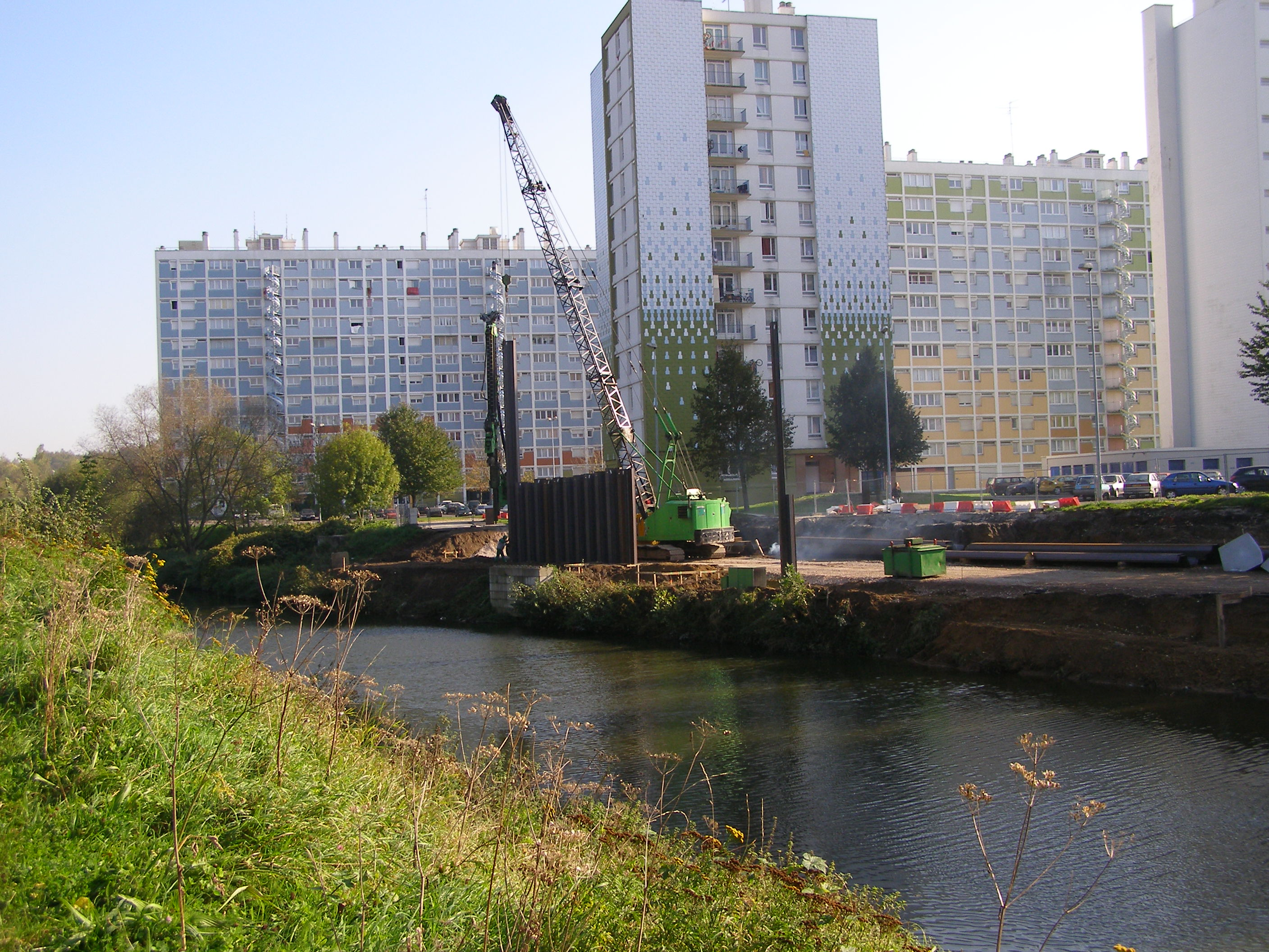 Viavil French provinces, strengthening the bank of the Sambre.